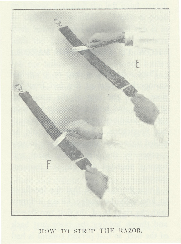 A picture taken from a classical textbook of shaving published in 1905. An illustration of how to strop a razor.